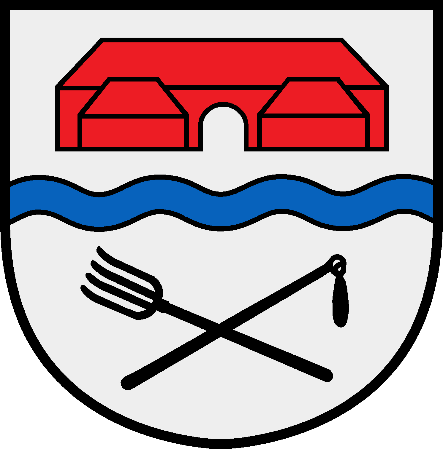 Coat of arms of the municipality Schwartbuck in Schleswig-Holstein, Germany.